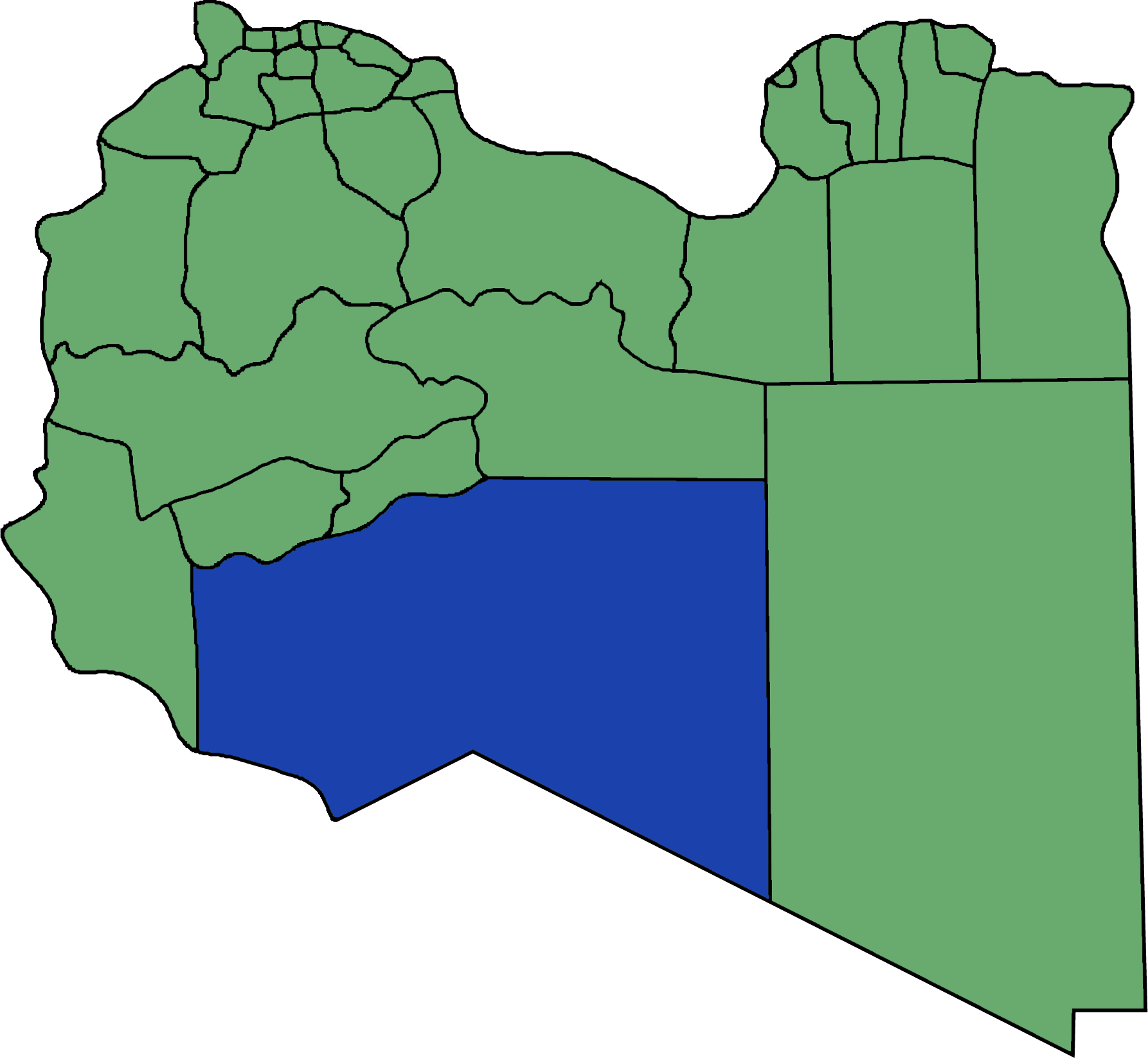 Location of Murzuq District (highlighted) in Fezzan - Libya.